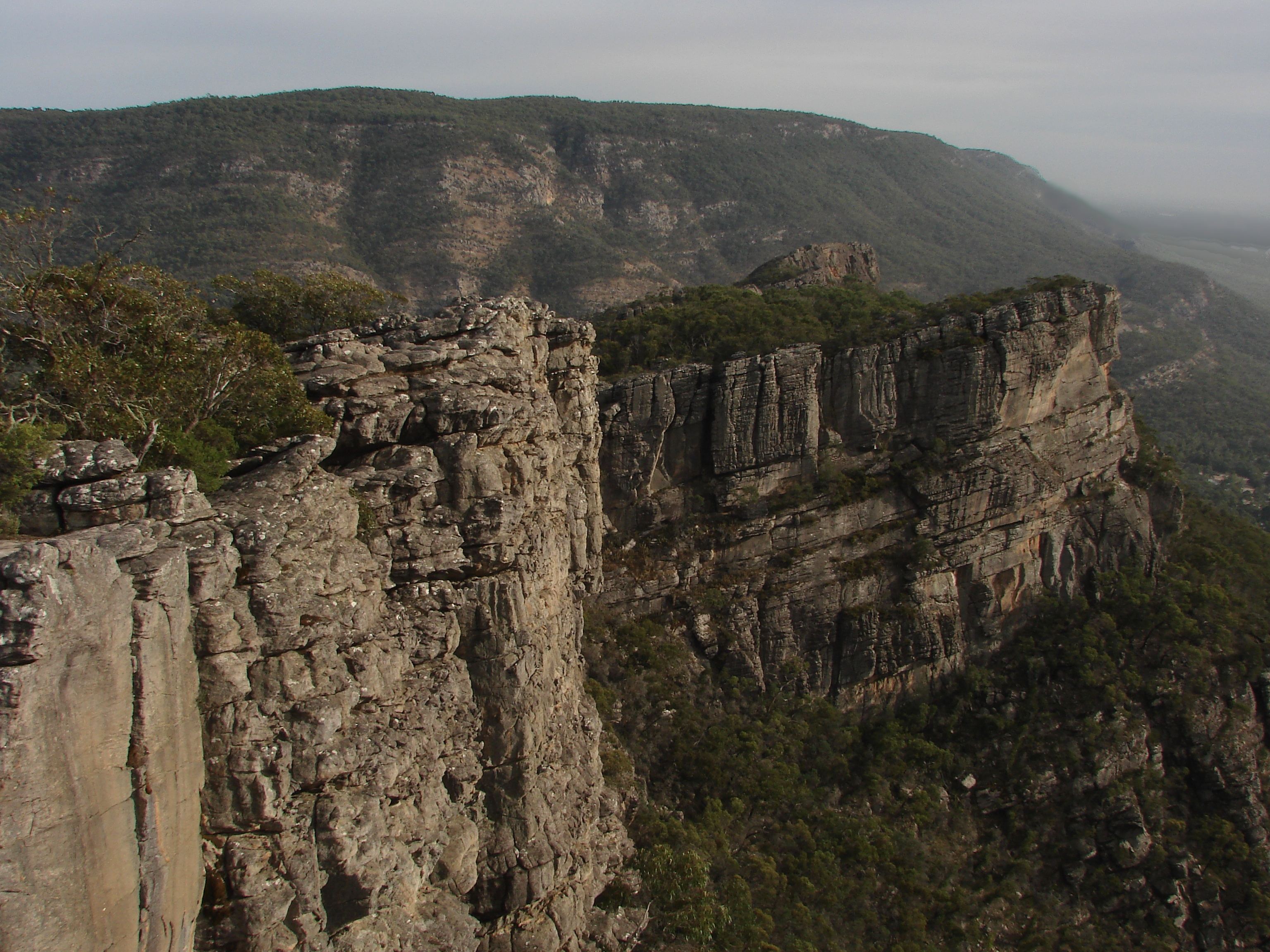 Grampians, Victoria, Australia, view from the Pinnacle